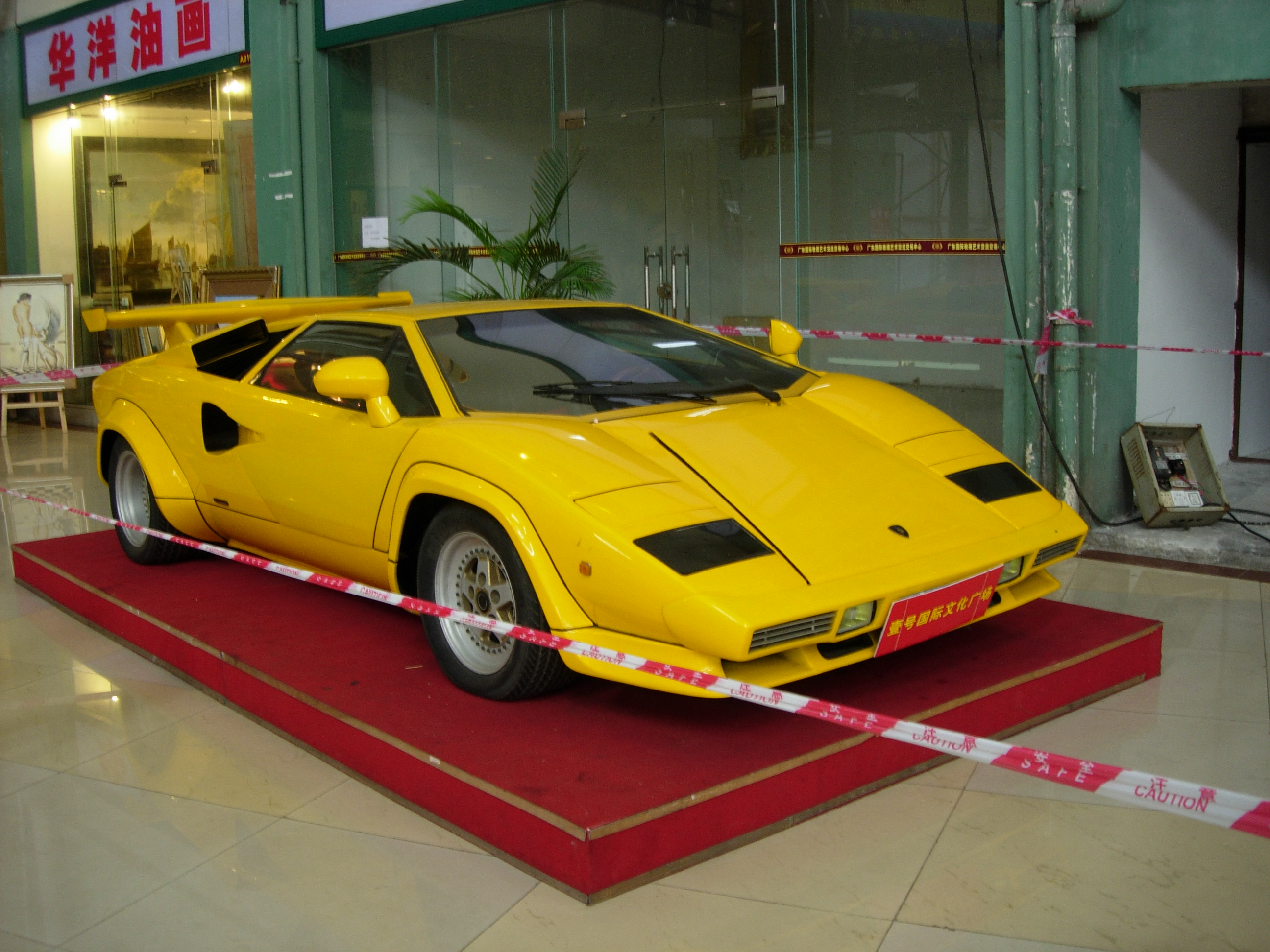 lamborghini lp500